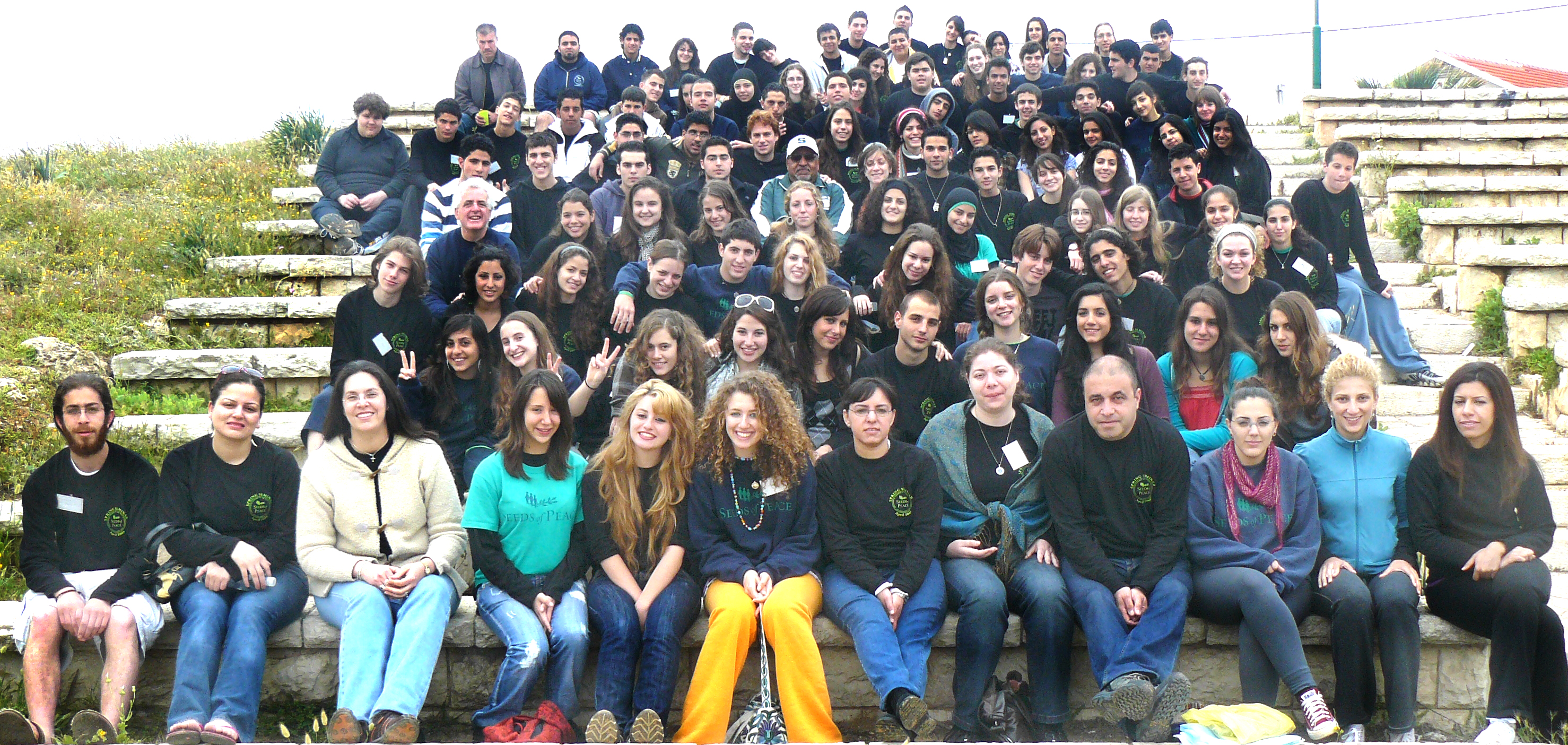 For the first time since the war in Gaza, Israeli and Palestinian Seeds gathered for dialogue and team building challenges. After extensive preparation and several uni-national meetings, 43 Palestinian Seeds and 62 Jewish and Arab Israeli Seeds from the 2006-2008 Camp years met at a school on the Mediterranean for 36 hours of intense interaction. The Spring Seminar provided Seeds with a unique opportunity to exchange their experiences of the War, work through some of their anger and disappointment arising from the conflict, and ultimately renew their connections with each other and their commitment to a peaceful solution to the conflict. Fourteen Israeli and Palestinian facilitators led the dialogue sessions, which Seeds of Peace veterans described as among the most profound and constructive in memory. In an inspirational talk, Advisor and Director of Alumni Relations Tim Wilson reminded the Seeds of Camp’s transformational effect, and encouraged Seeds, staff and volunteers to make the most of the opportunity provided by the seminar. Between dialogue sessions, staff, volunteers, and former delegation leaders led team-building exercises, field sports like “Steal the Bacon,” and a lively talent show of Seed-produced skits and music.